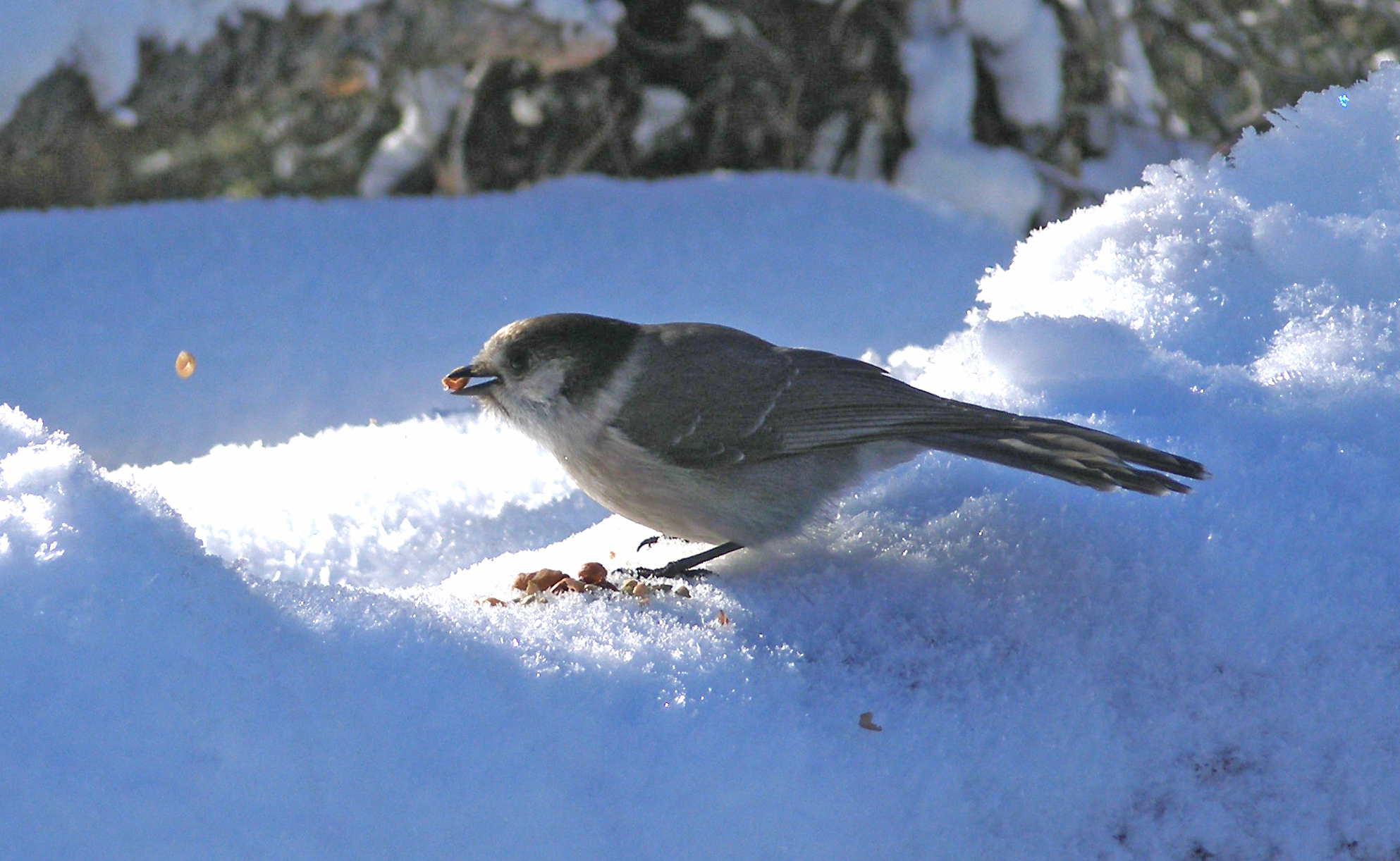 The Grey Jay (or Gray Jay) is also known as the Canada Jay or the Whiskey Jack. It's a friendly bird and on cross-country ski expeditions I've had several of them perch on my head and shoulders for a bite of trail mix.